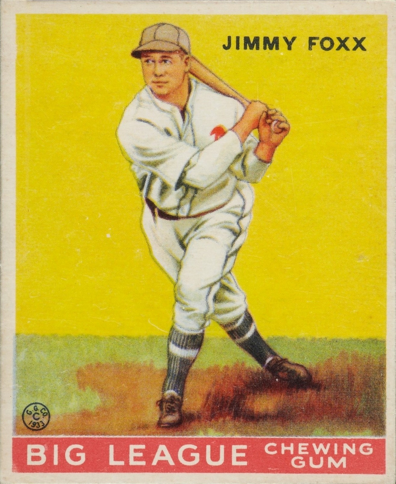 1933 Goudey Baseball Card of Jimmy Foxx of the Philadelphia Athletics #29. PD-not-renewed.